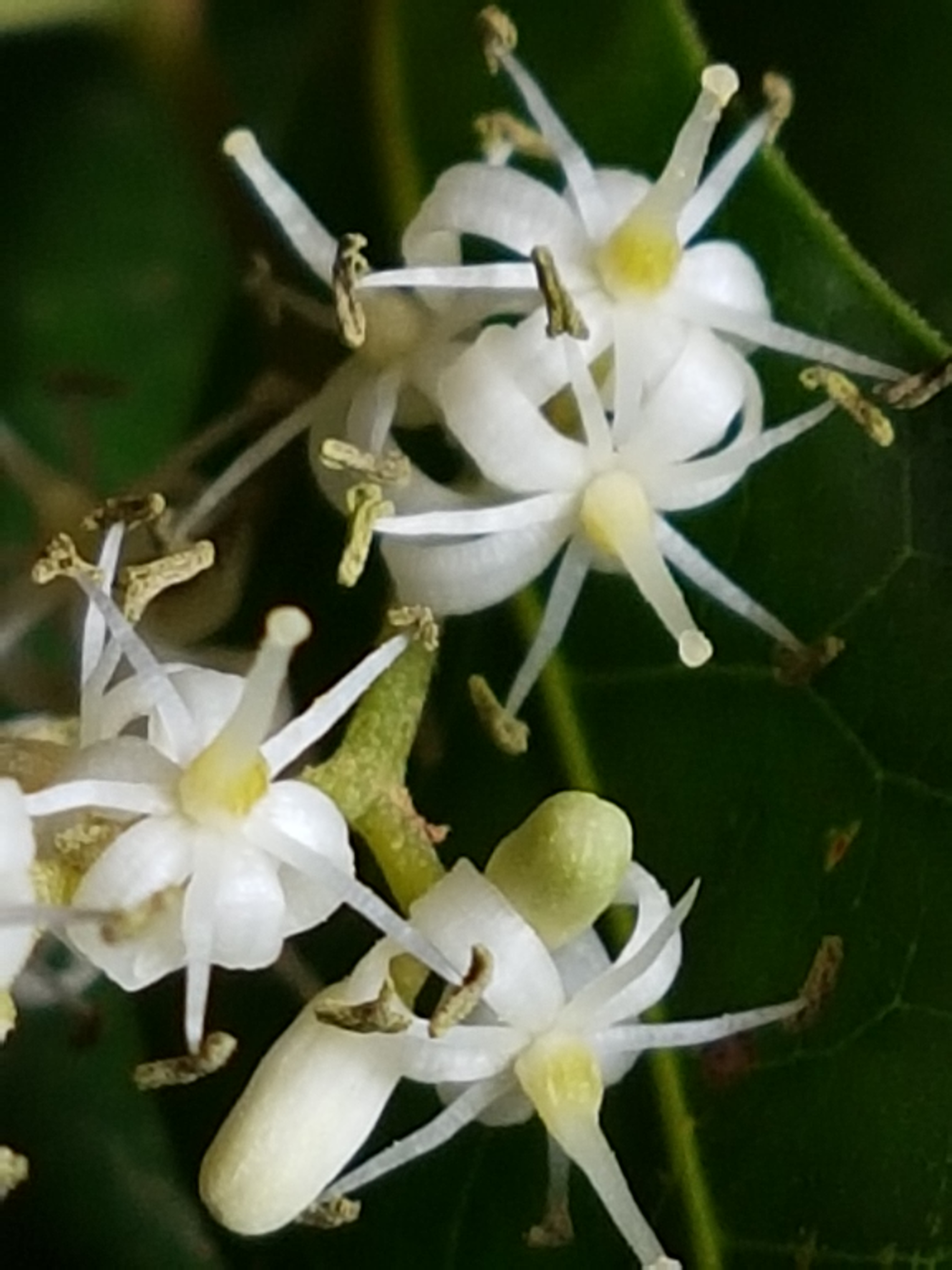 Apodytes dimidiata E.Mey. ex Arn. - cultivated - Honeydew, Johannesburg West, South Africa